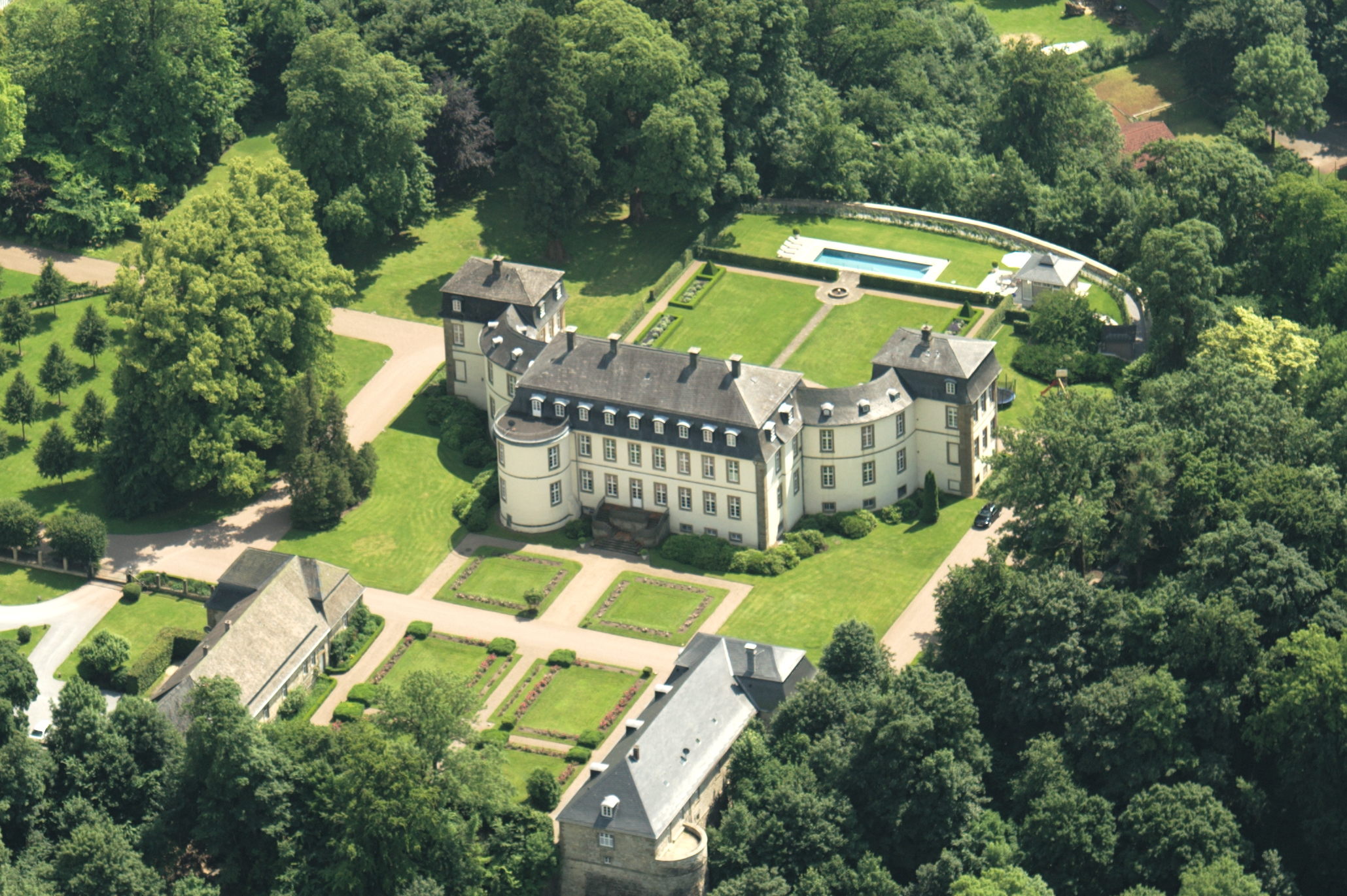 Fotoflug Sauerland-Ost – Schloss Fürstenberg in Bad Wünnenberg The making of this document was supported by the Community-Budget of Wikimedia Germany.